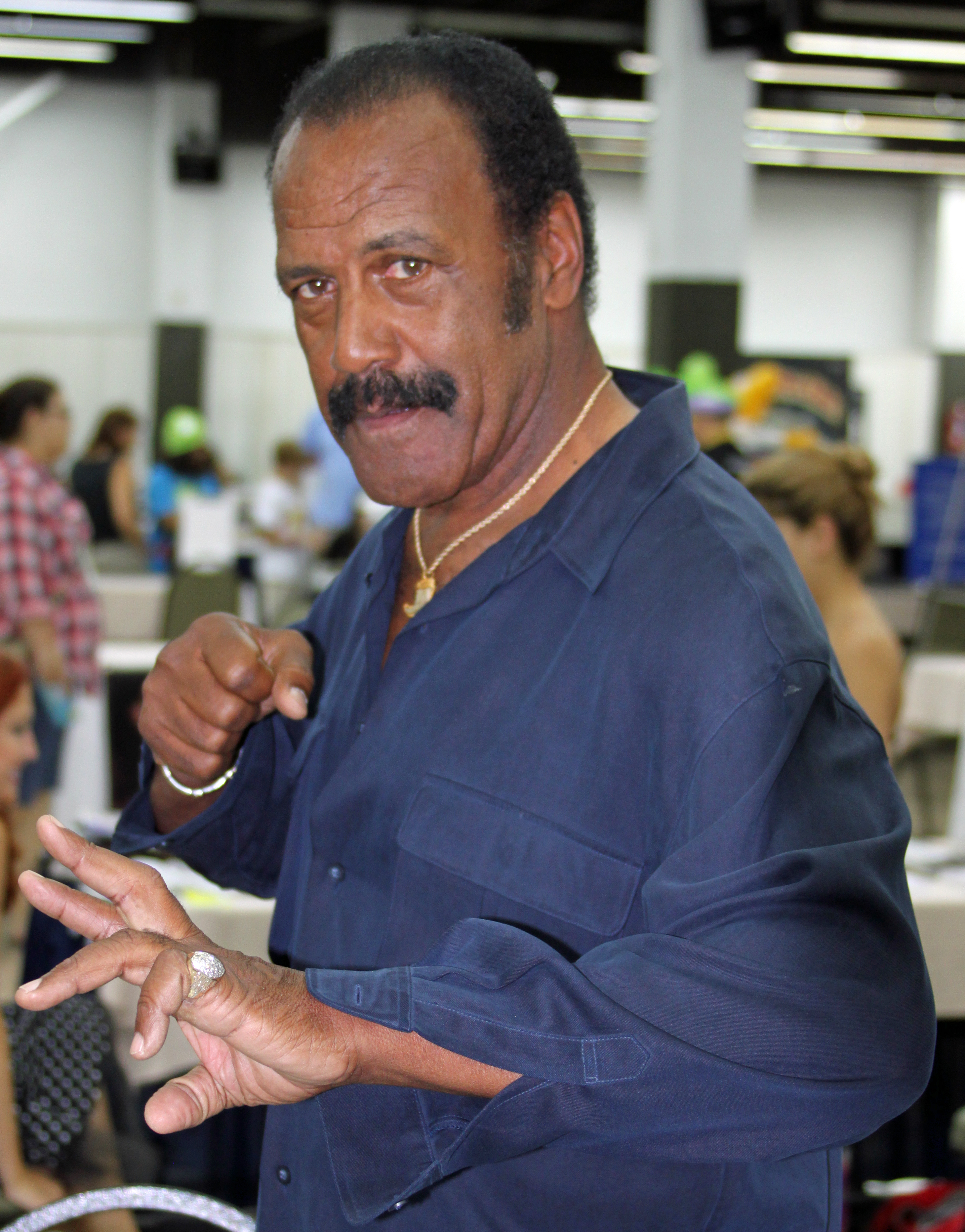 Fred Williamson at Florida Supercon in June 2010.